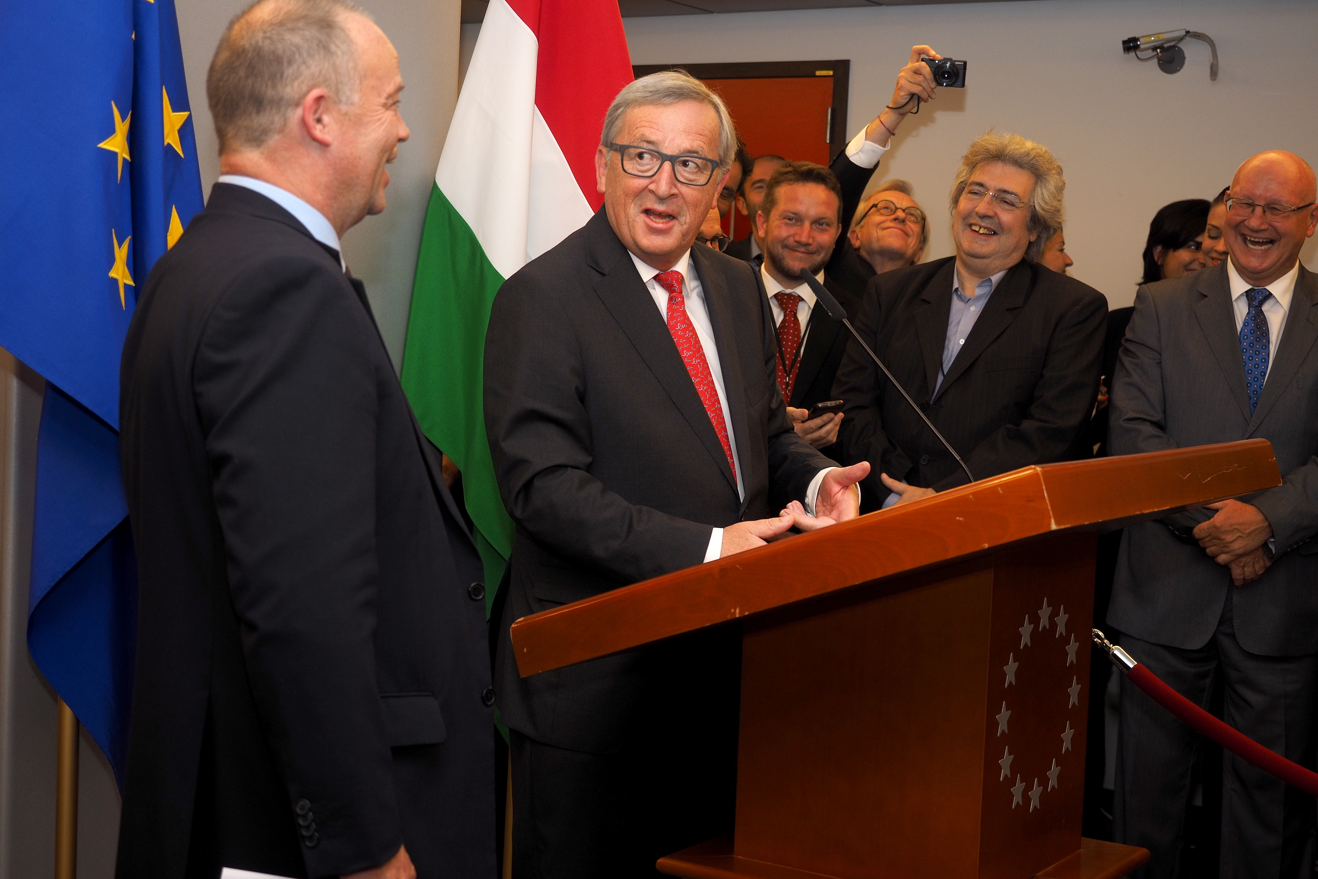 Jean-Claude Juncker in Brussels, September 2015